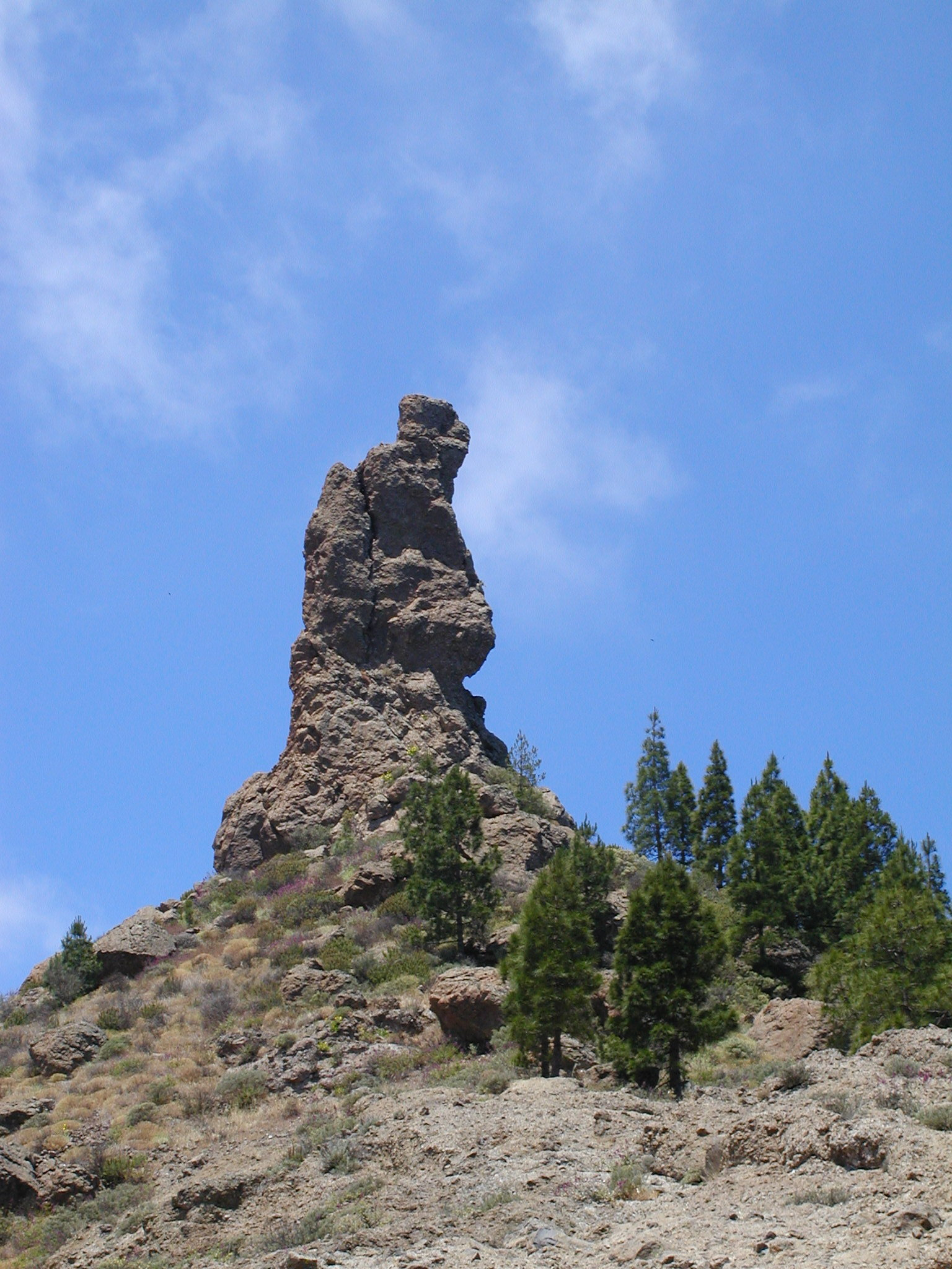 Image of Roque del Fraile (Friar Rock) in Gran Canaria, near Roque Nublo (Nublo Rock).